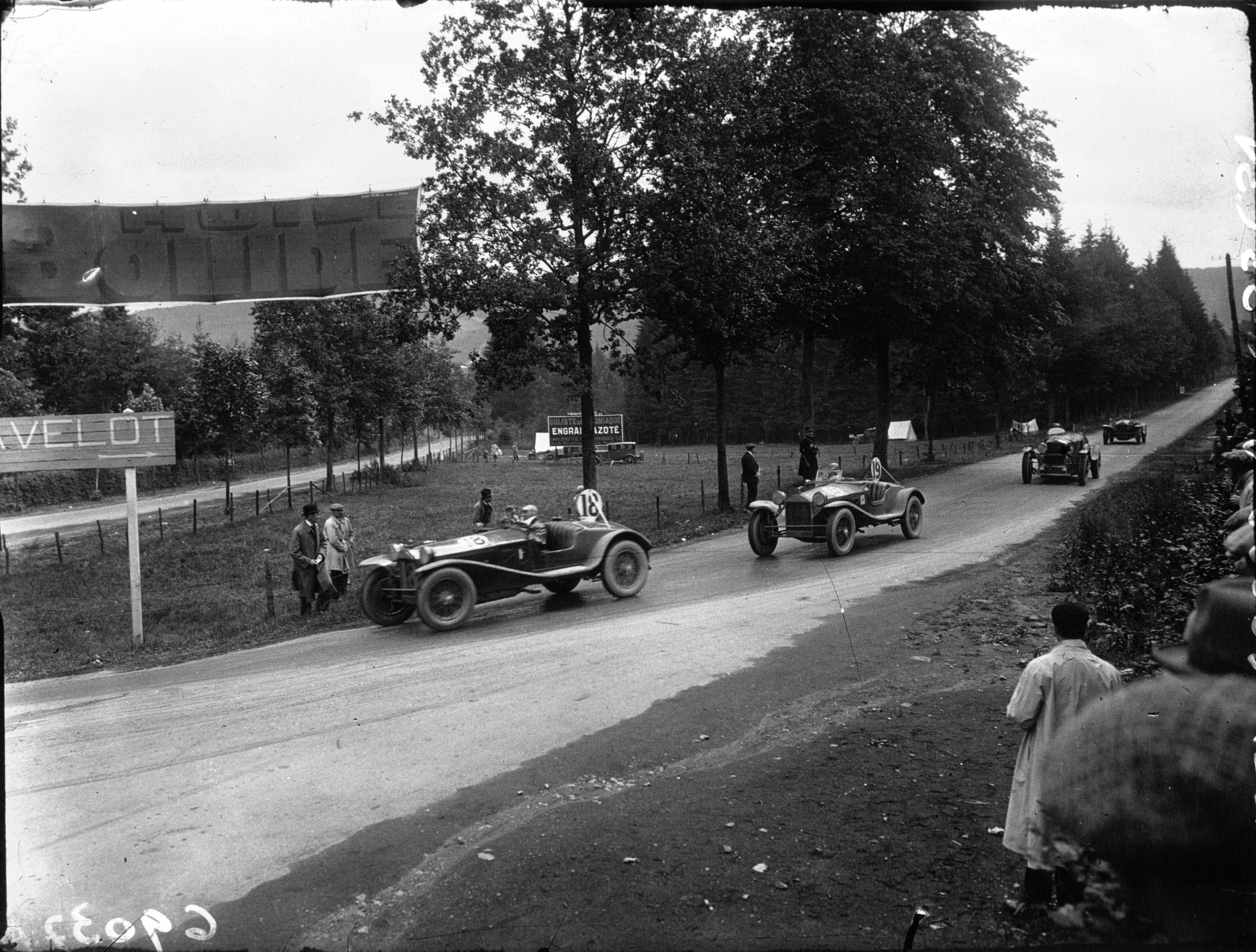 Four cars at the 1929 24 Hours of Spa.